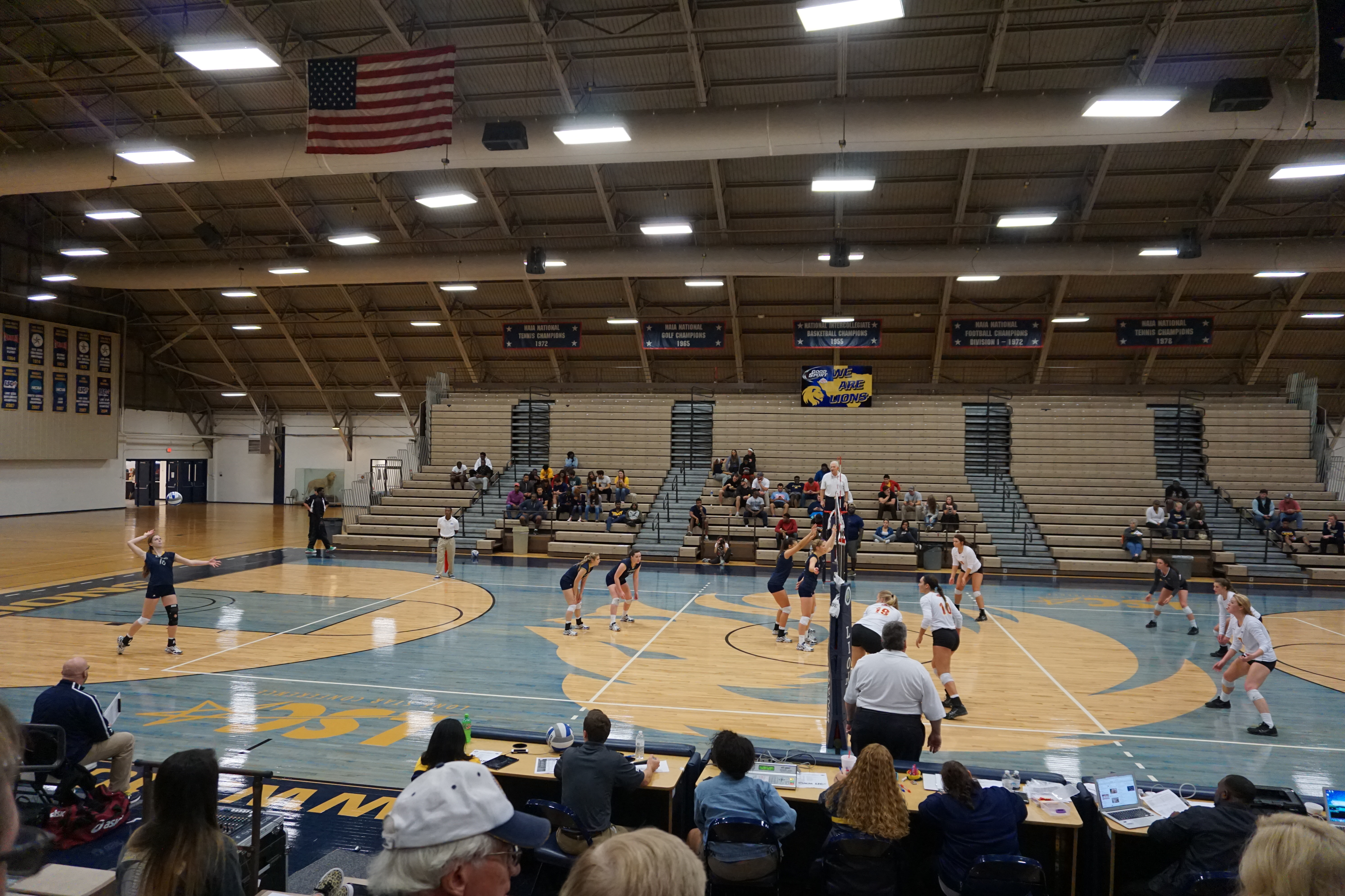 In-match action during the Midwestern State Mustangs vs. Texas A&M–Commerce Lions women's volleyball match at the Field House in Commerce, Texas (United States). A&M–Commerce won 3–1 (26–24, 24–26, 25–18, 25–17).